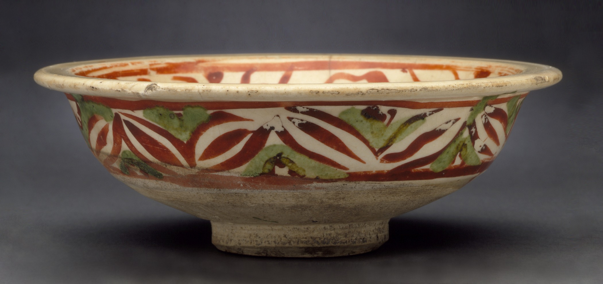 China, Henan Province, Late Jin dynasty or early Yuan dynasty, about 1200-1300 Furnishings; Serviceware Cizhou ware type, wheel-thrown stoneware with white glaze and painted overglaze enamel decoration Diameter: under 5 in. (12.7 cm) Gift of Nasli M. Heeramaneck (M.73.48.123) Chinese Art